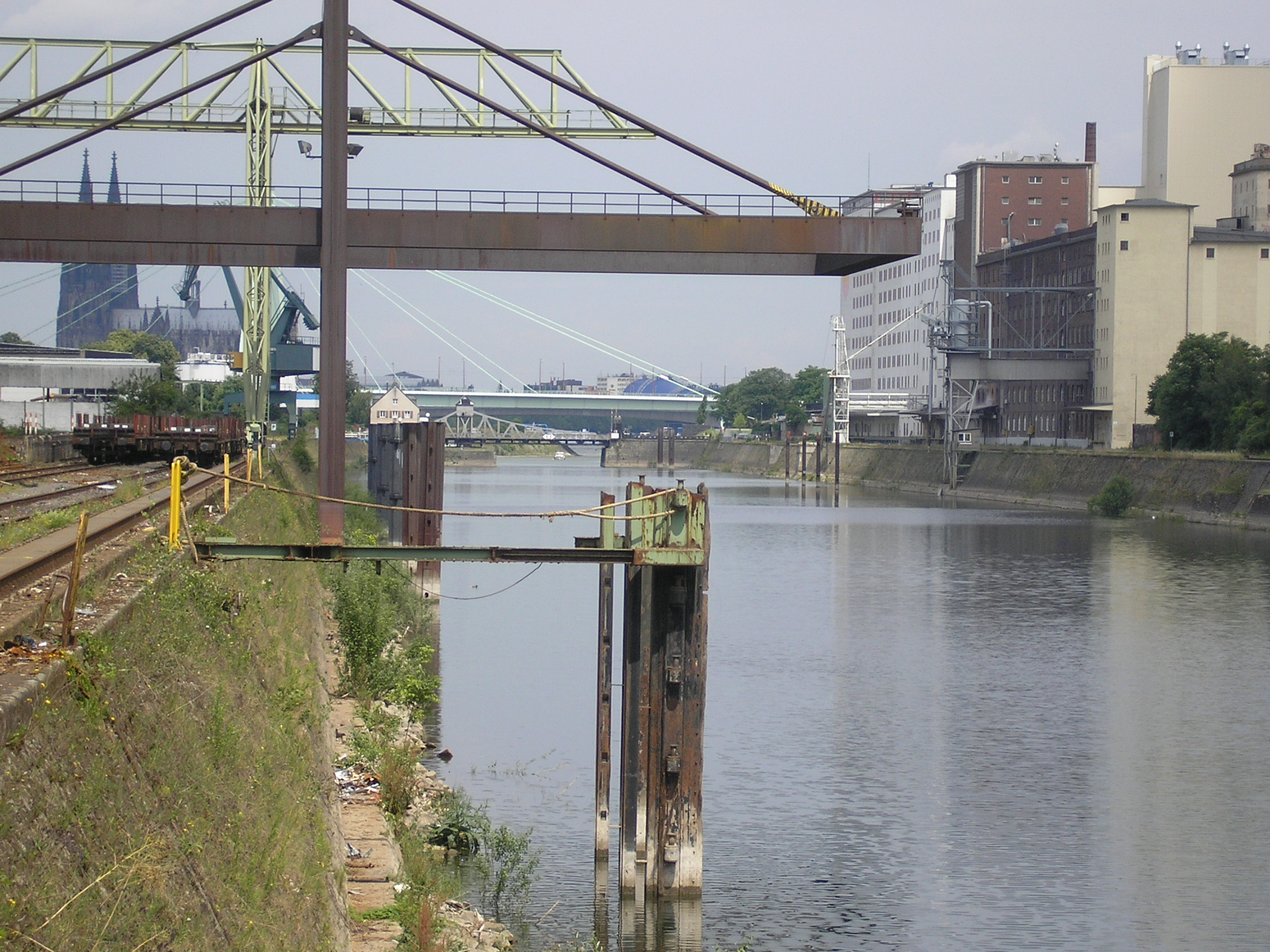 Ellmühle ( Mill ) Cologne-Deutz, Germany